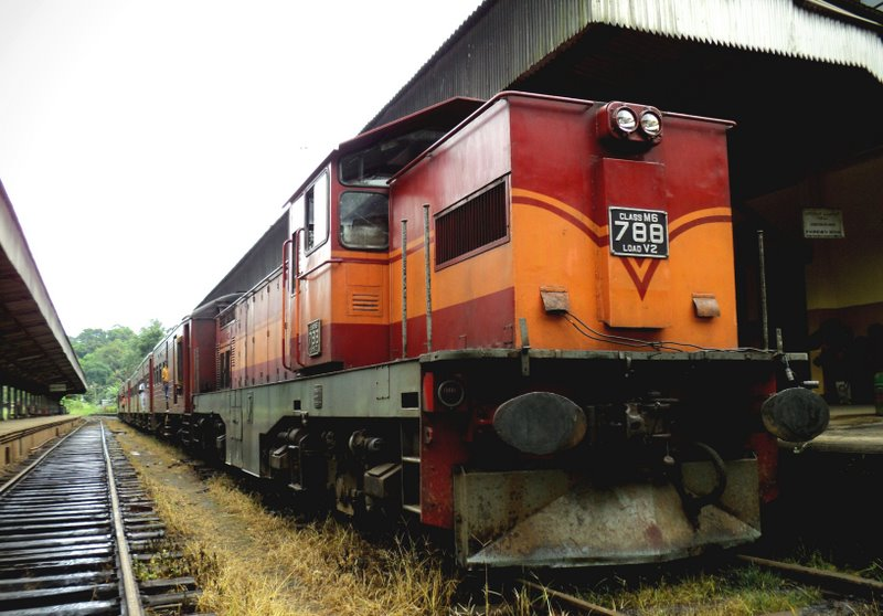 Sri Railways class M6 locomotive number 788සිංහල: ශ්‍රී ලංකා දුම්රිය සේවයේ M6 පංතියට අයත් අංක 788 දරණ දුම්රිය එන්ජිම